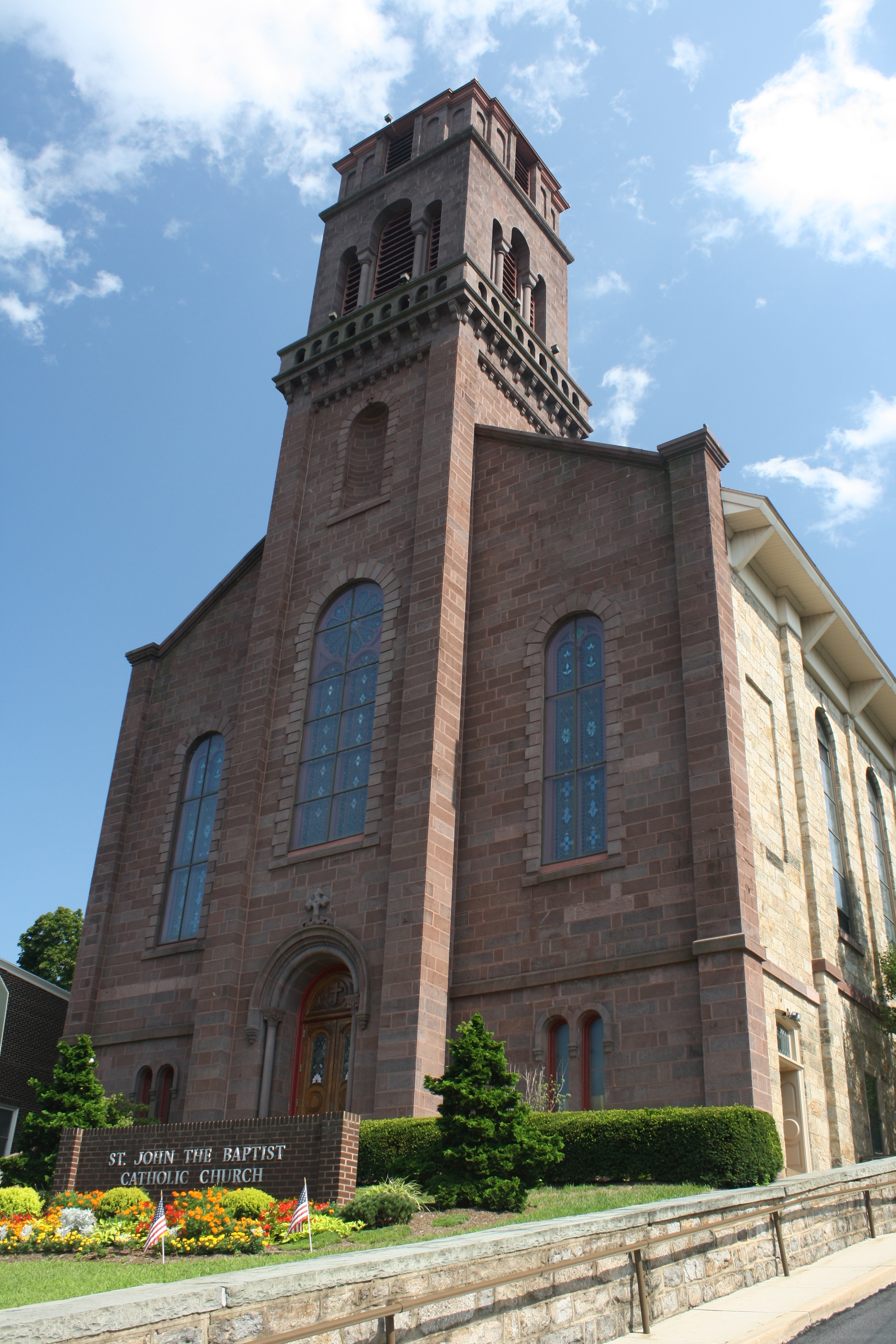 Photo of St. John the Baptist Catholic Church, Pottsville, Pennsylvania was taken by Michael Rajchel with a personal Cannon Rebel XS. Located at 10th and Mahantongo Streets, Pottsville, PA 17901